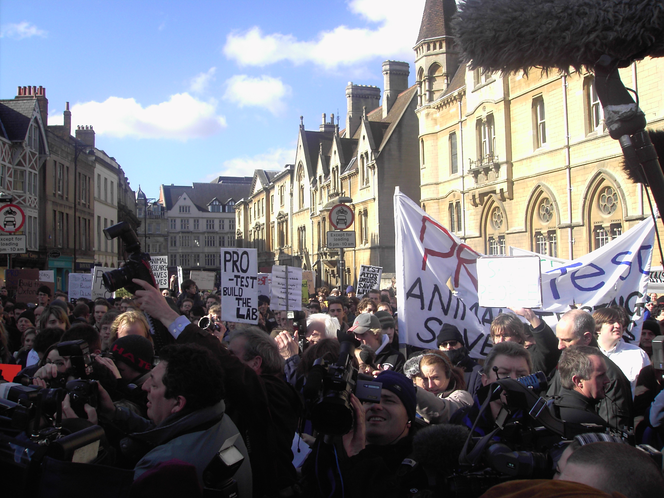 The first Pro-Test march, Broad Street, Oxford, England